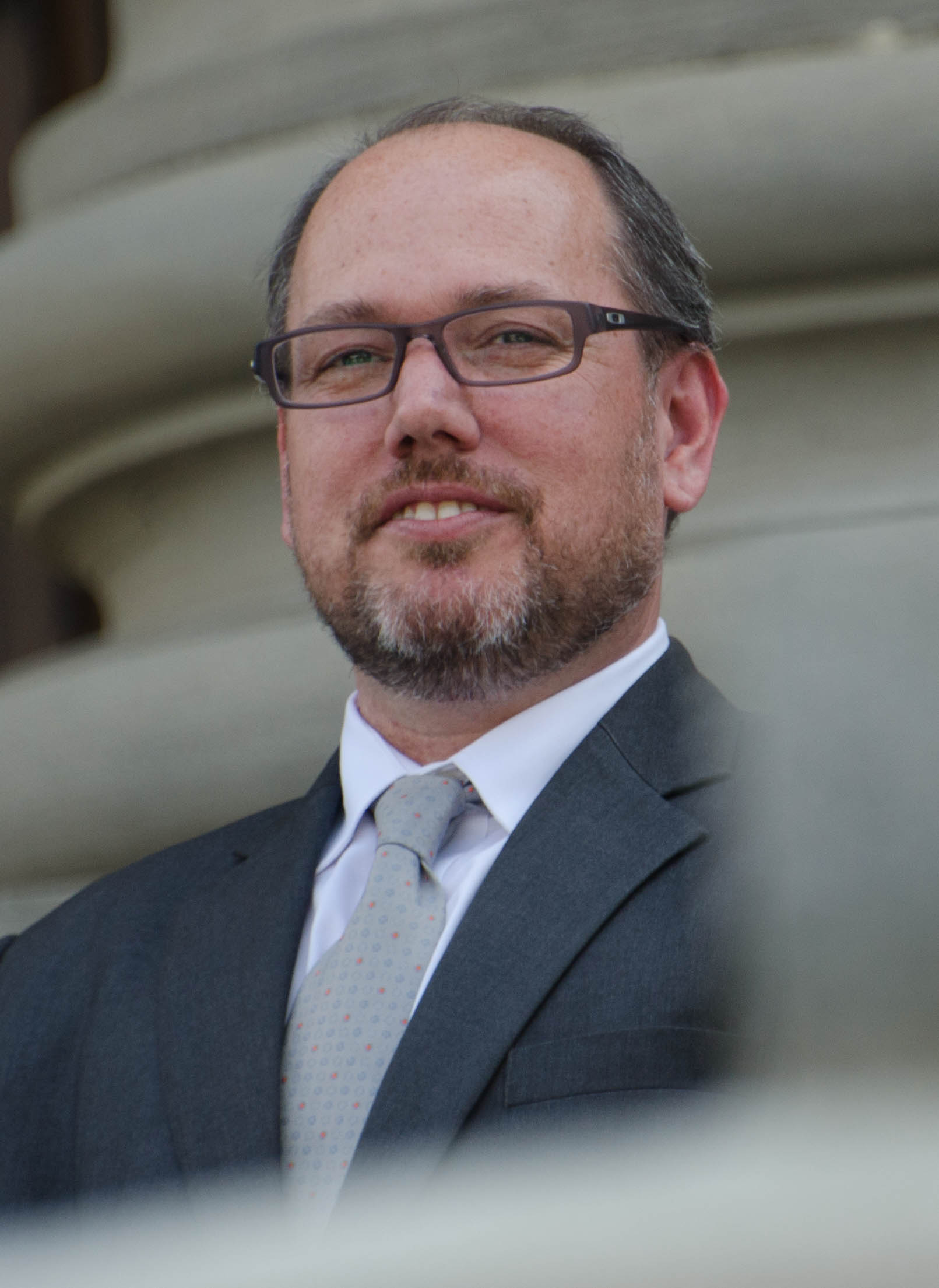 Craig Coolahan at the 2015 Alberta Premier/Cabinet swearing-in ceremony, by Connor Mah.